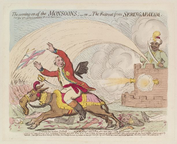 Print depicts General Lord Cornwallis riding a goat away from the walls of Seringapatam. Tipu Sultan, holding a scimitar, appears to be urinating on the general from behind the wall, from which his cannons are also seen firing.